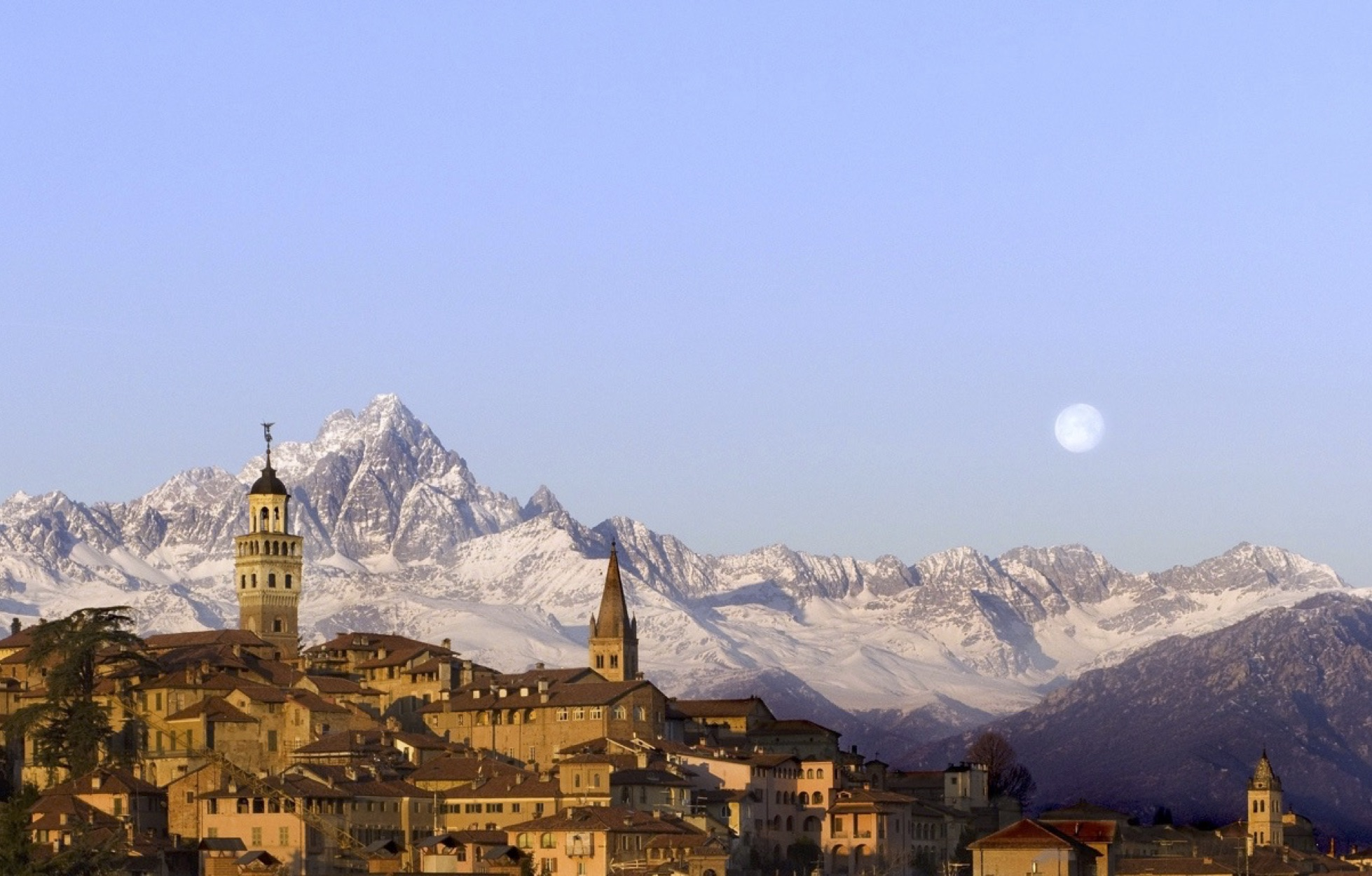 Birthplace of Giambattista Bodoni.